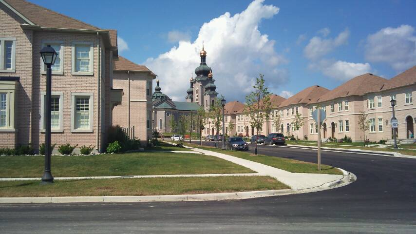 Cathedraltown Markham Streetscape